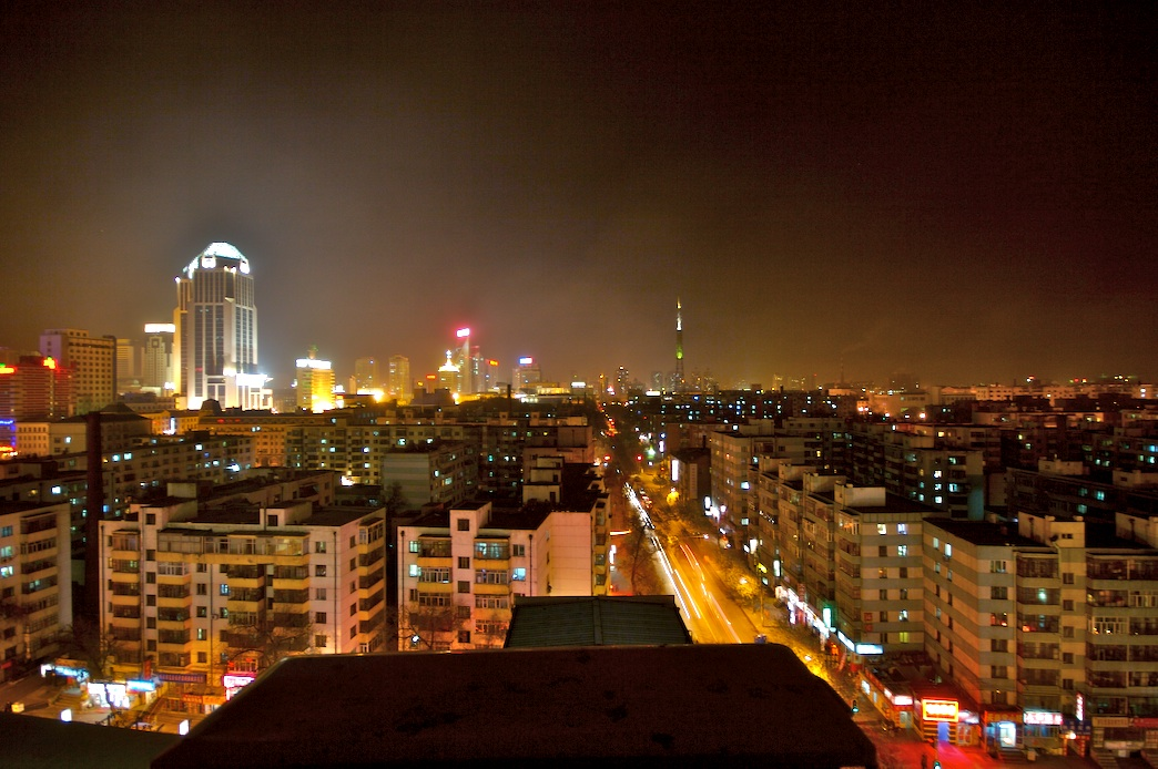 Harbin, Heilongjiang, China The view from my hotel room. I eventually found the hotel I was looking for.